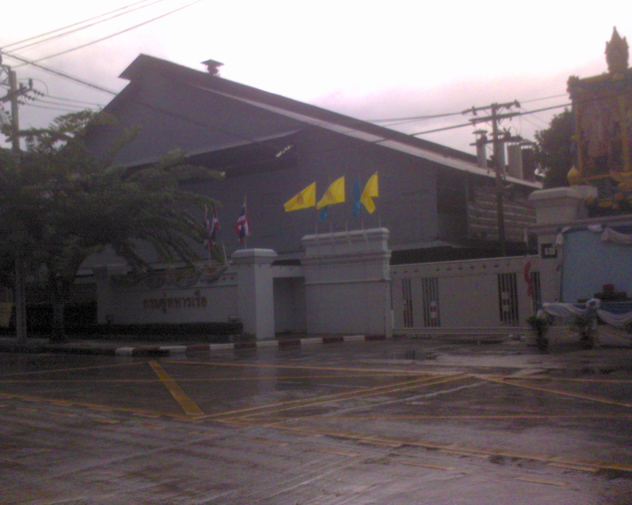 Thai Naval Dockyard, Bangkok, Thailand